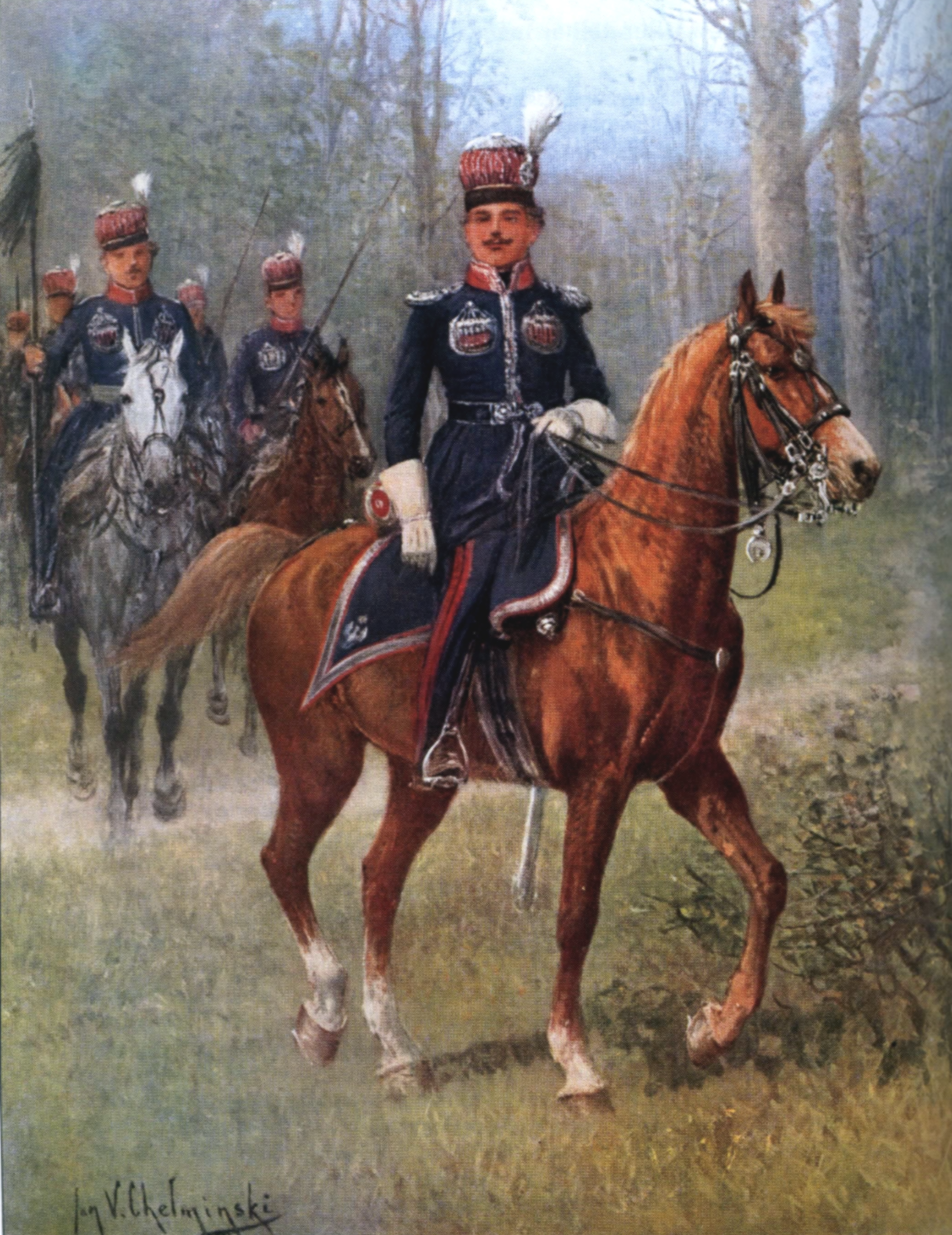 Krakusi of the Duchy of Warsaw